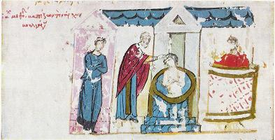 Byzantine miniature from the Madrid Skylitzes, 12th century.